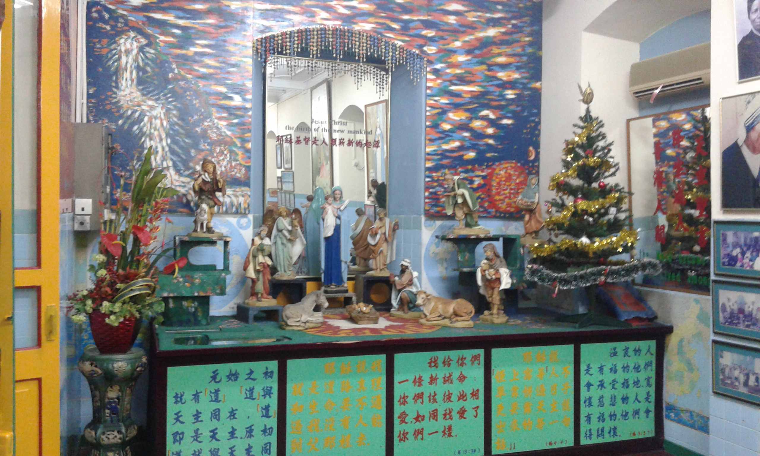 Interior of Capela de São Francisco Xavier (Macau)